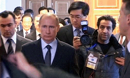 Vladimir Putin and Mahdi Bemani